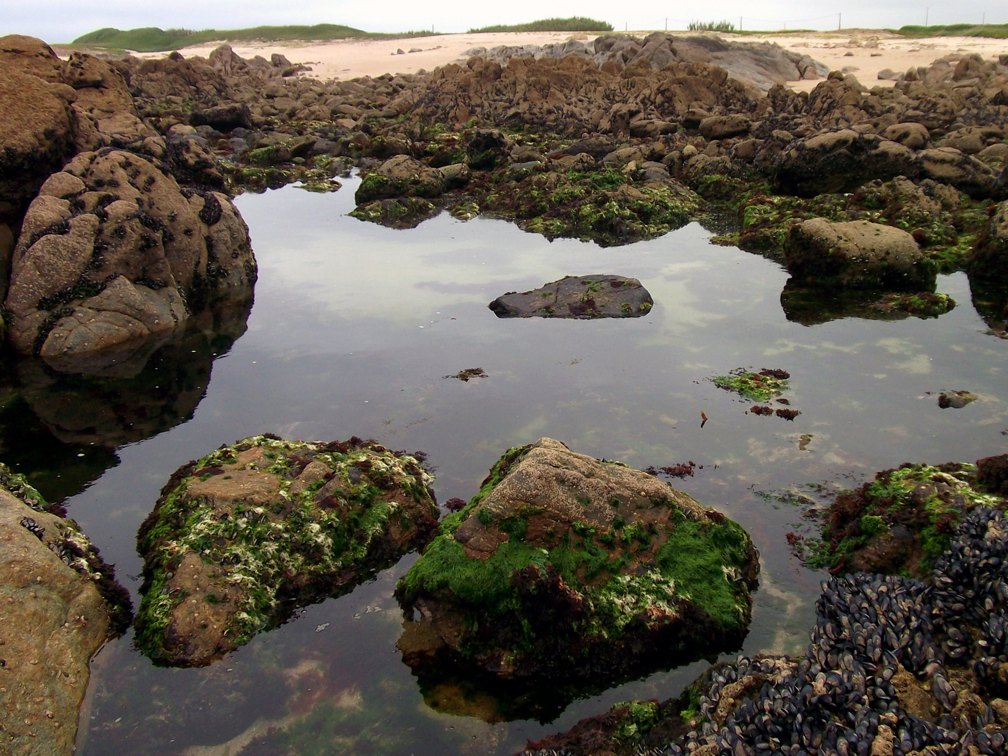 Tide pool in Povoa de Varzim, Portugal